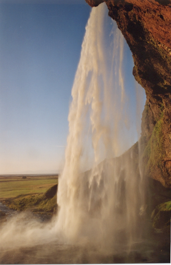 Seljalandsfoss at sunset. Near Hvolsvöllur in South Iceland.